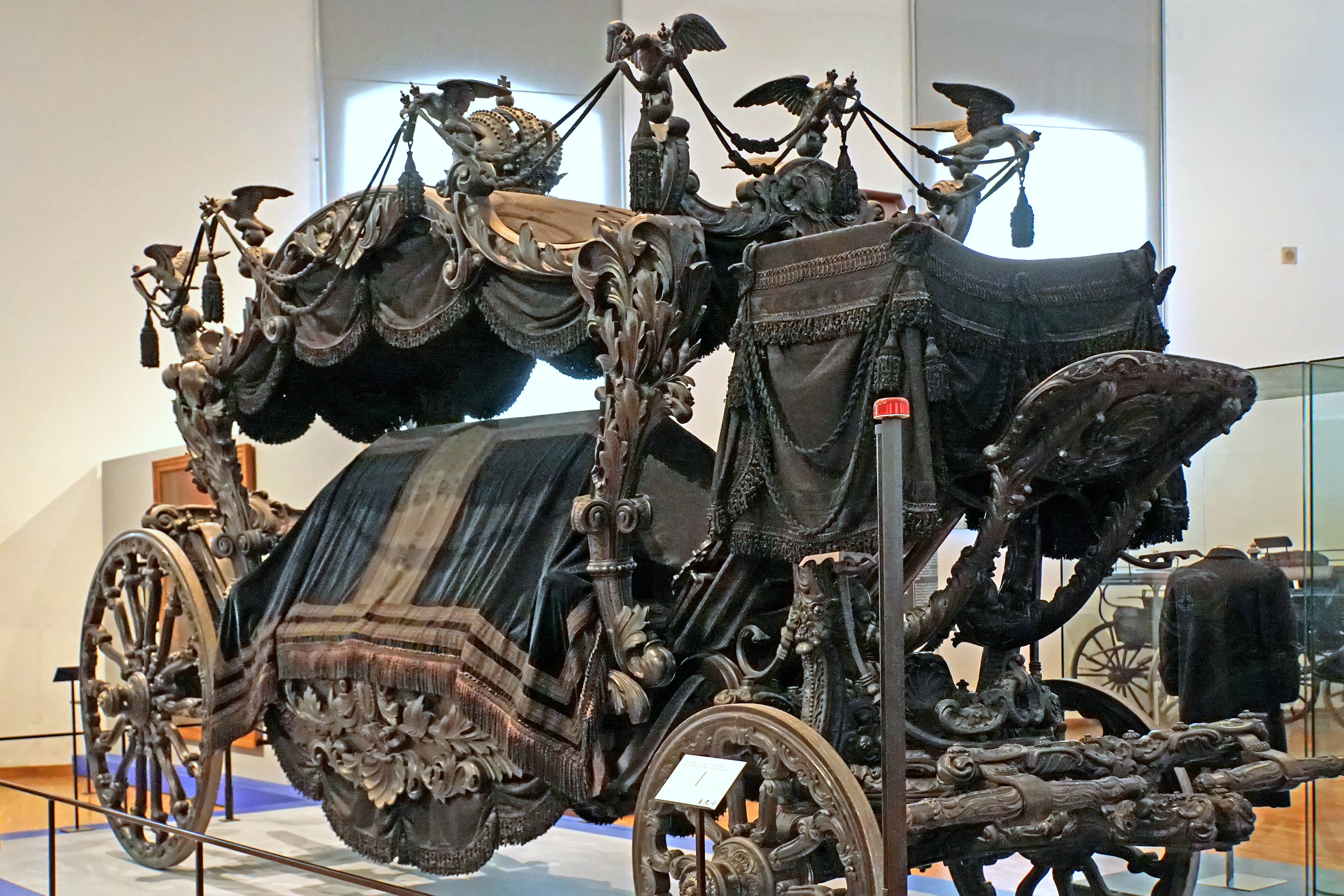 Black hearse carriage used in the funerals of Emperor Franz Joseph, his wife Sissi (Empress Elisabeth) and their son, Crown Prince Rudolph.